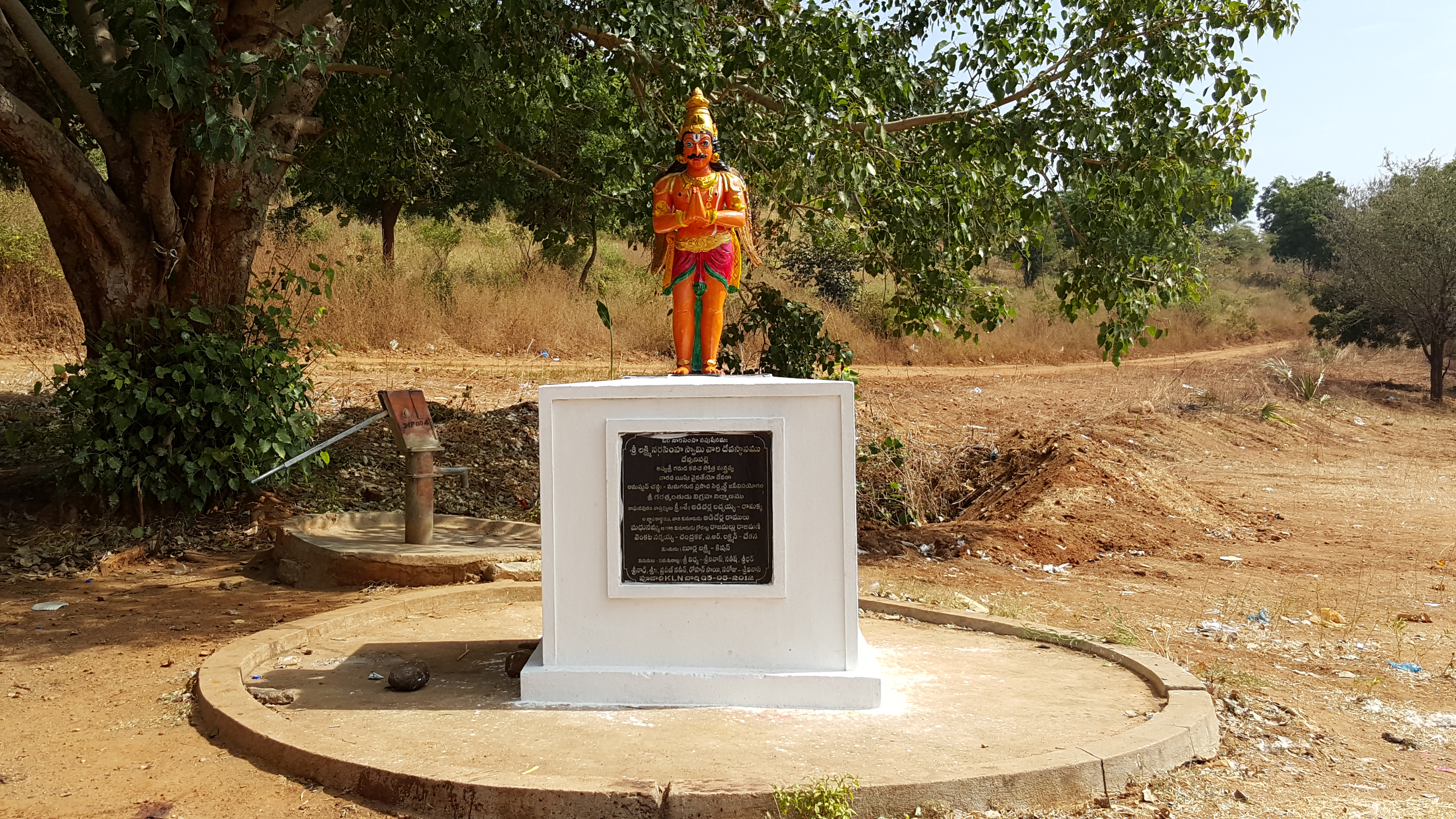 Garuthmanthudi, opposite to main entrance of Temple near Hill